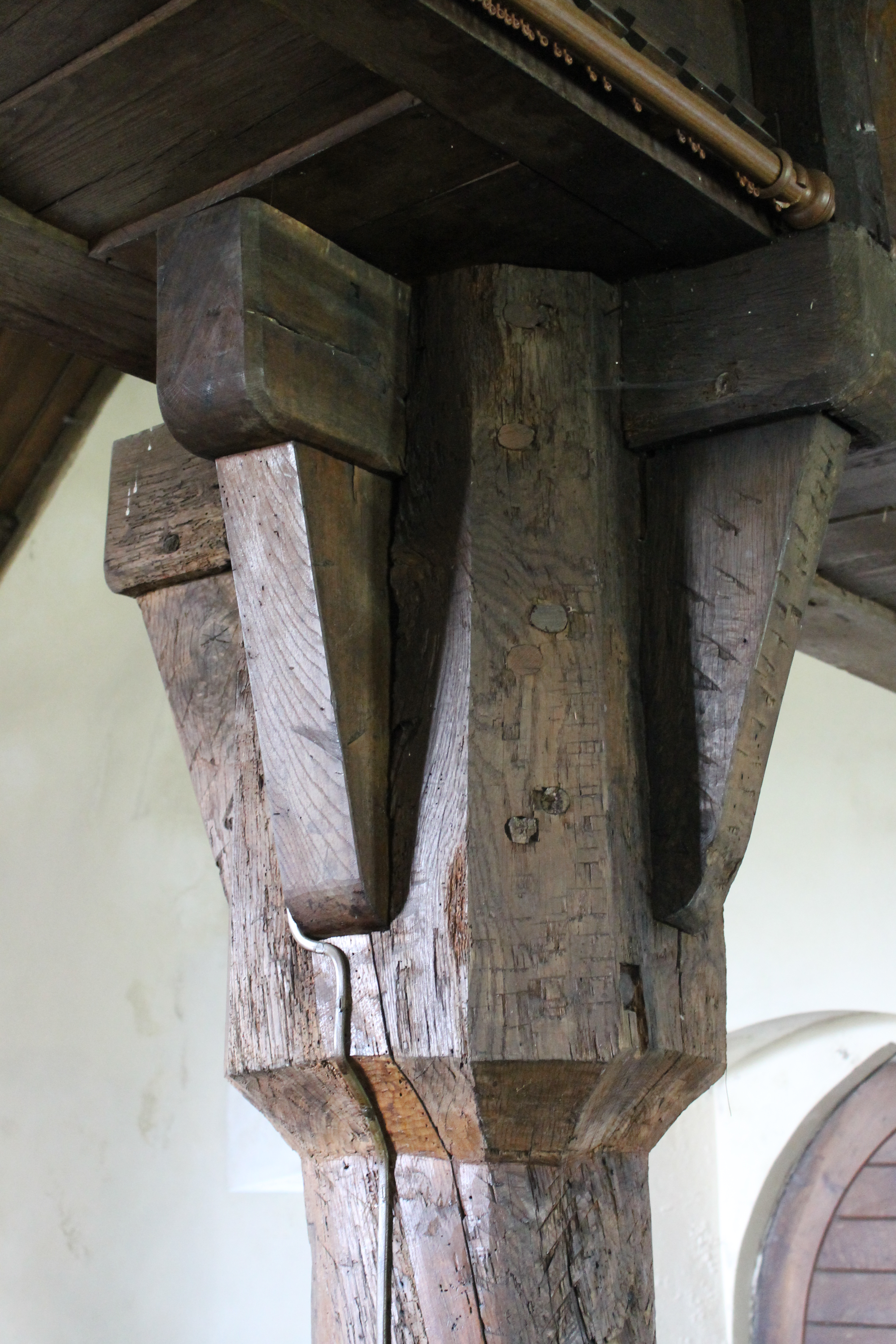 Church of St Tysilio, Bryneglwys, Denbighshire. 15th century, Grade II* listed.